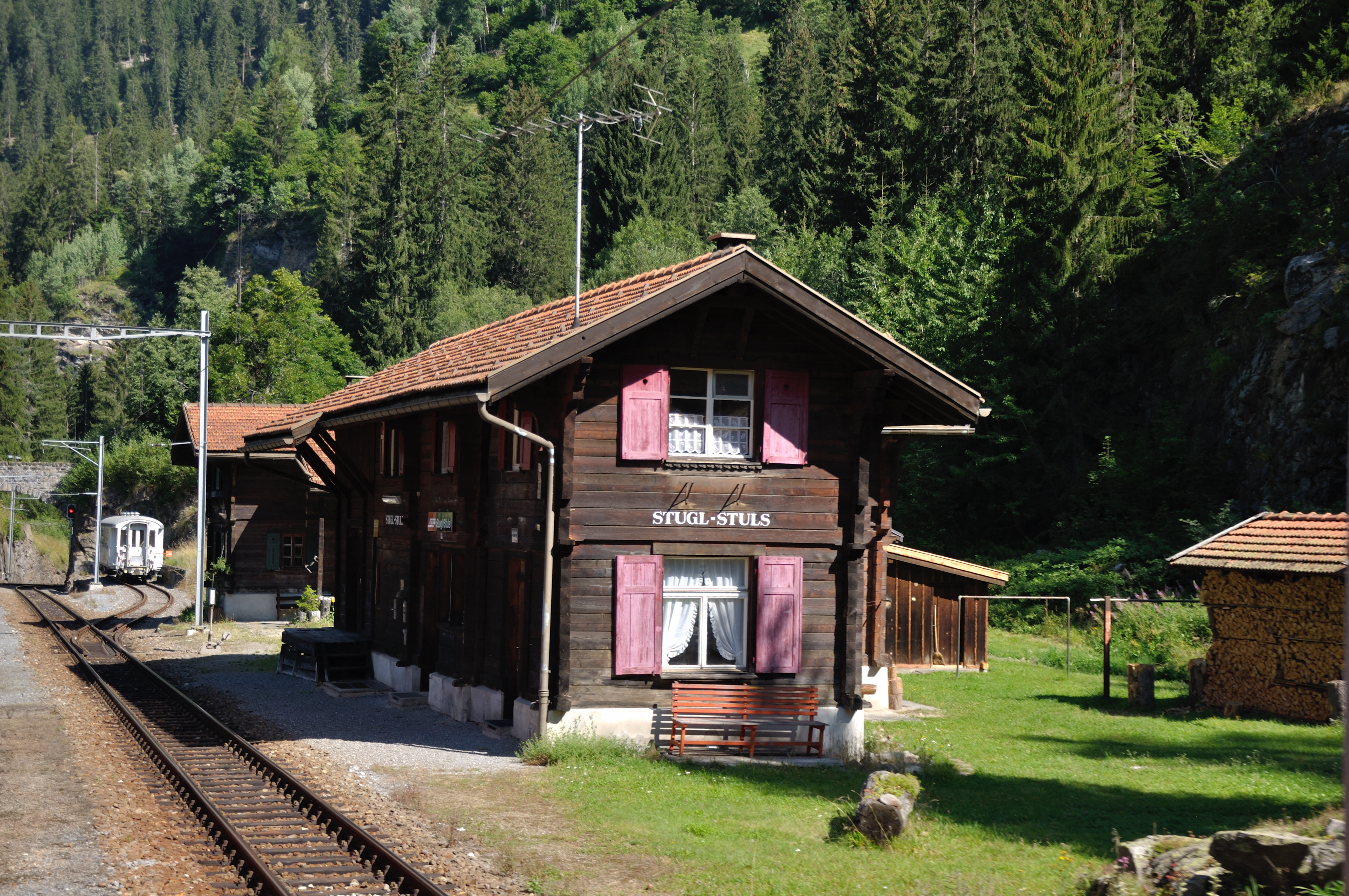 Switzerland, Graubünden, impressions on the Albula line of the Rhaetian Railways between Bergün and Thusis